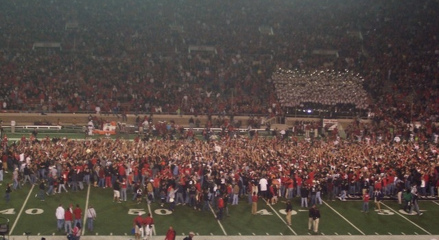 Photo credit: Jacky Rigney (cropped) Texas Tech students and fans rush the field after the unranked Red Raiders upset the #3 Oklahoma Sooners in 2007.